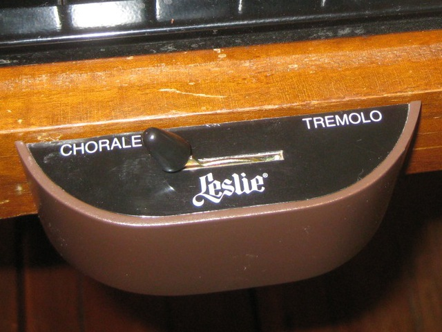 Newly installed half-moon switch on Vibe 56's Hammond B2 organ.